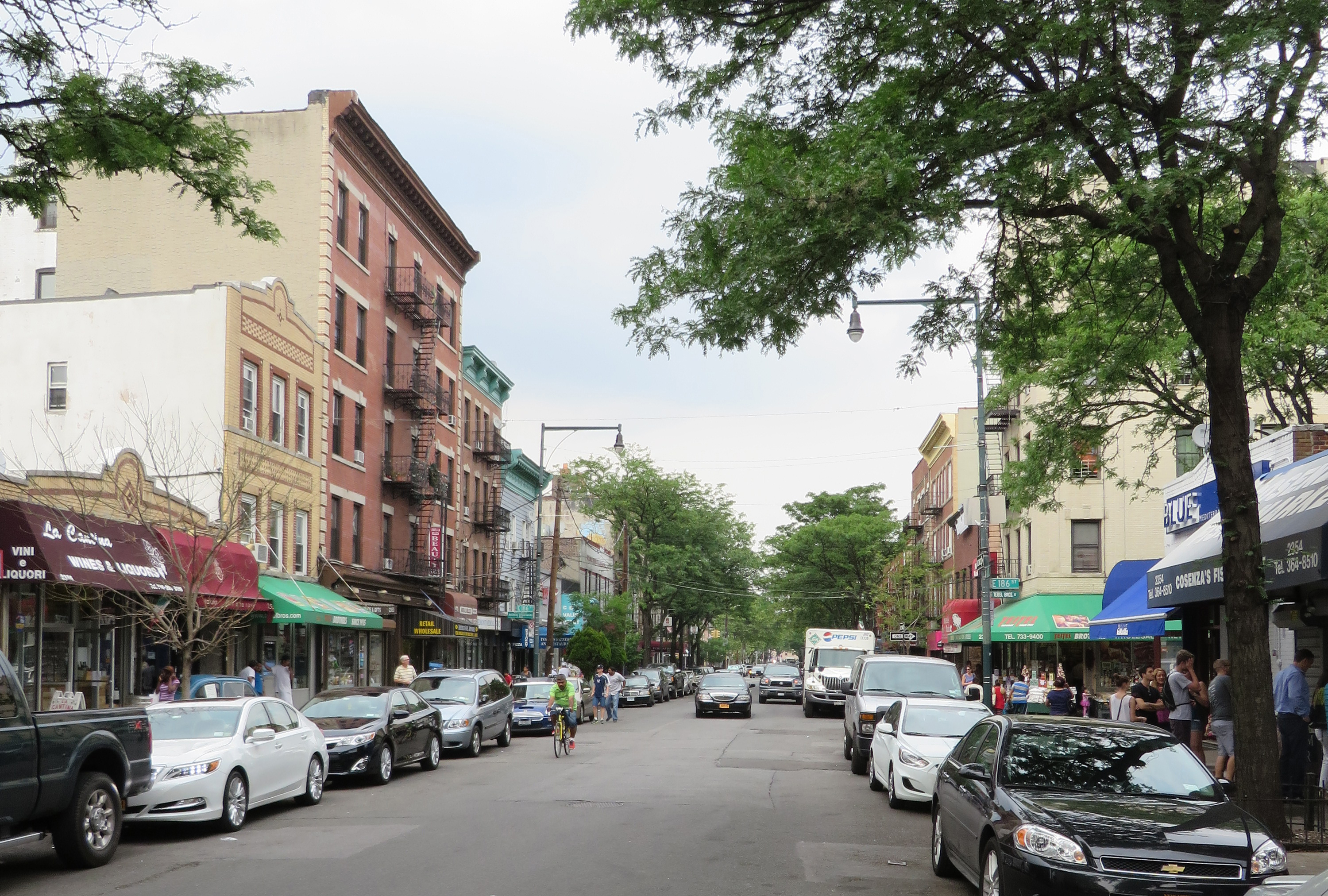 Arthur Avenue between 186th Street and 184th Street / Crescent Avenue looking towards 186th Street in the Bronx, New York City. This section of Arthur Avenue is known as the Little Italy of the Bronx.